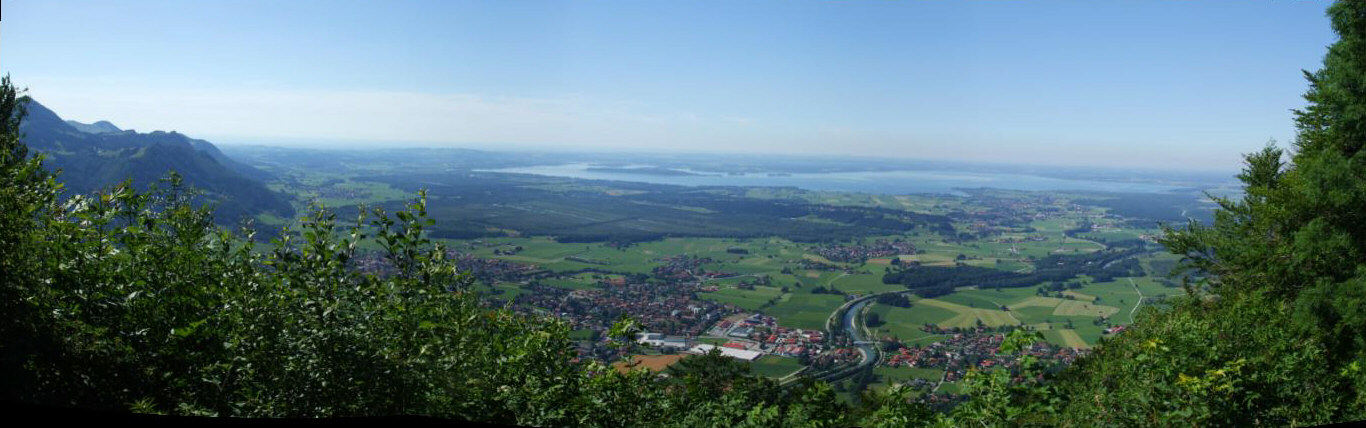 Airview to Chiemsee